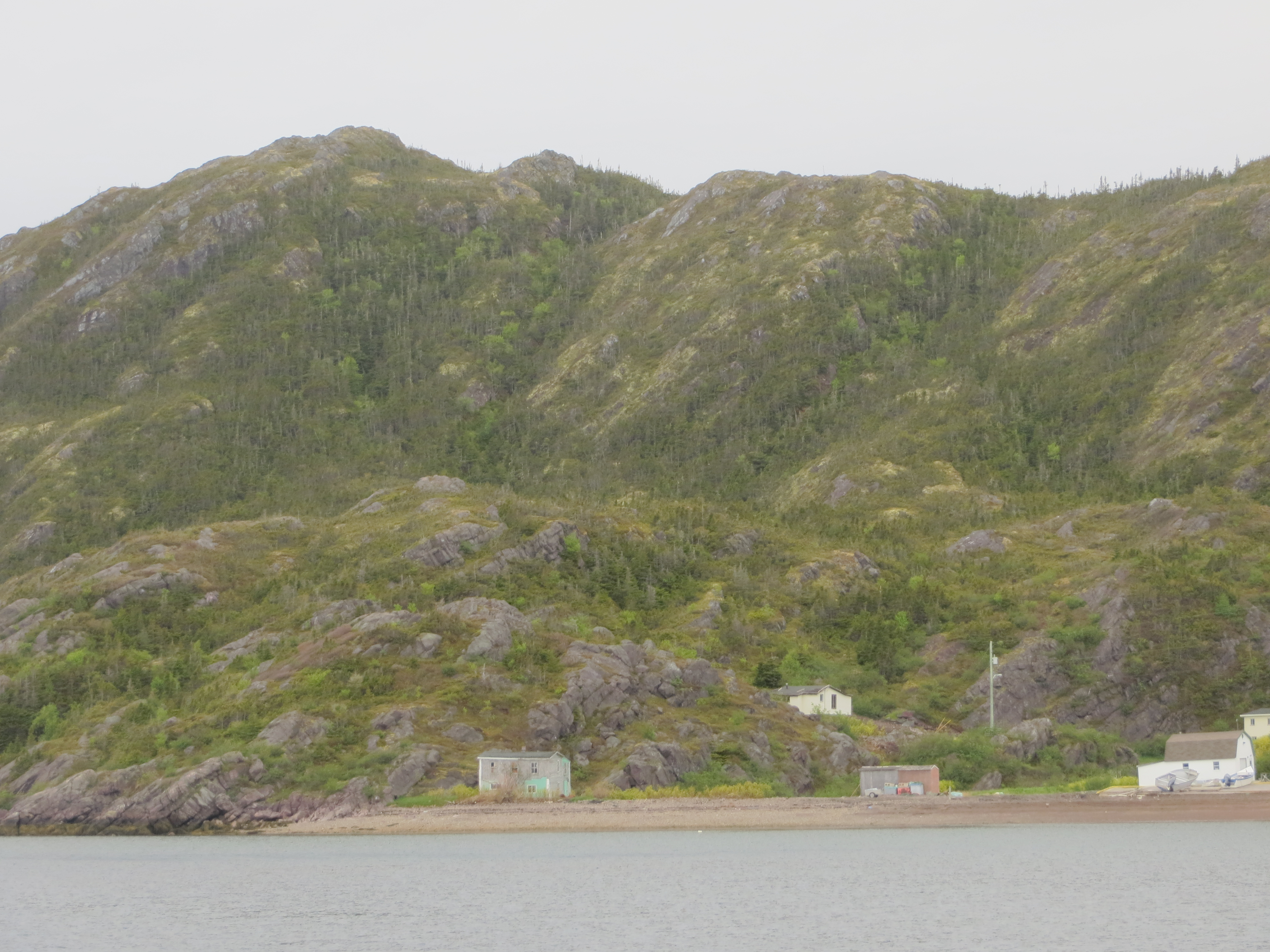 Outcrops of the Rencontre Formation in Rencountre, NL